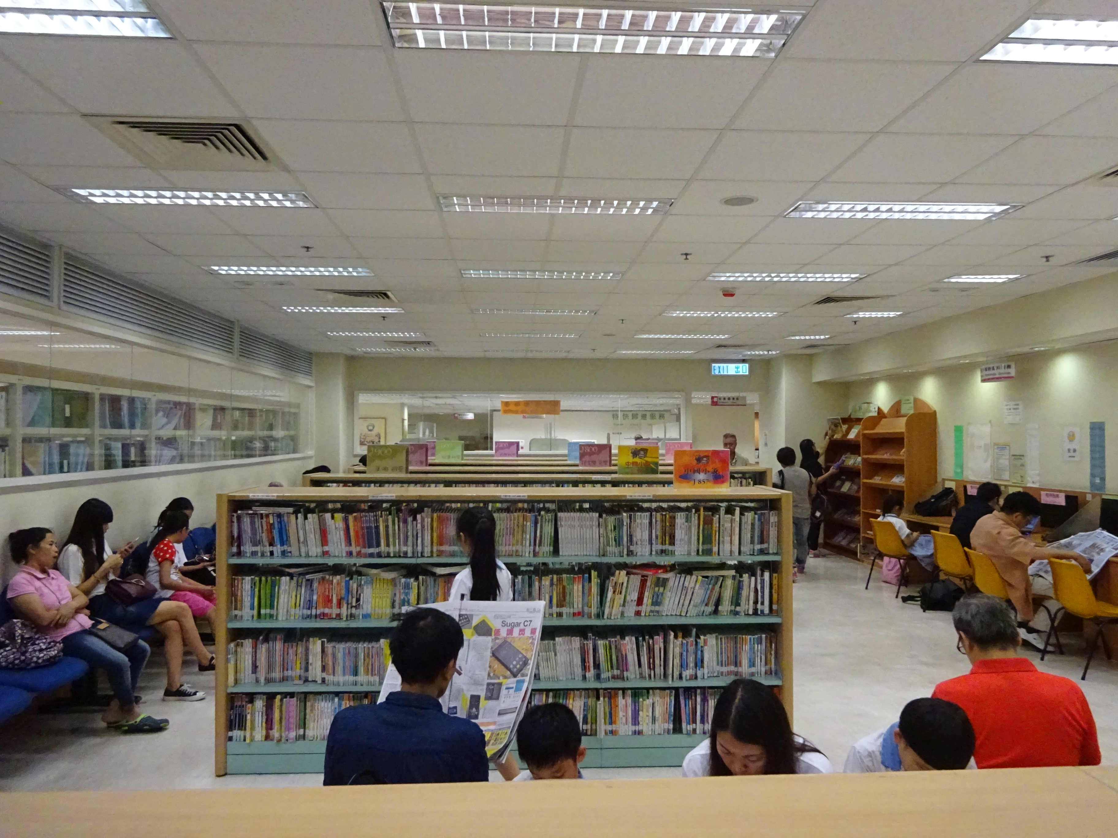 HK 元朗政府合署 Yuen Long Government Offices 元朗公共圖書館 自修室 Public Library Study Room in June 2016